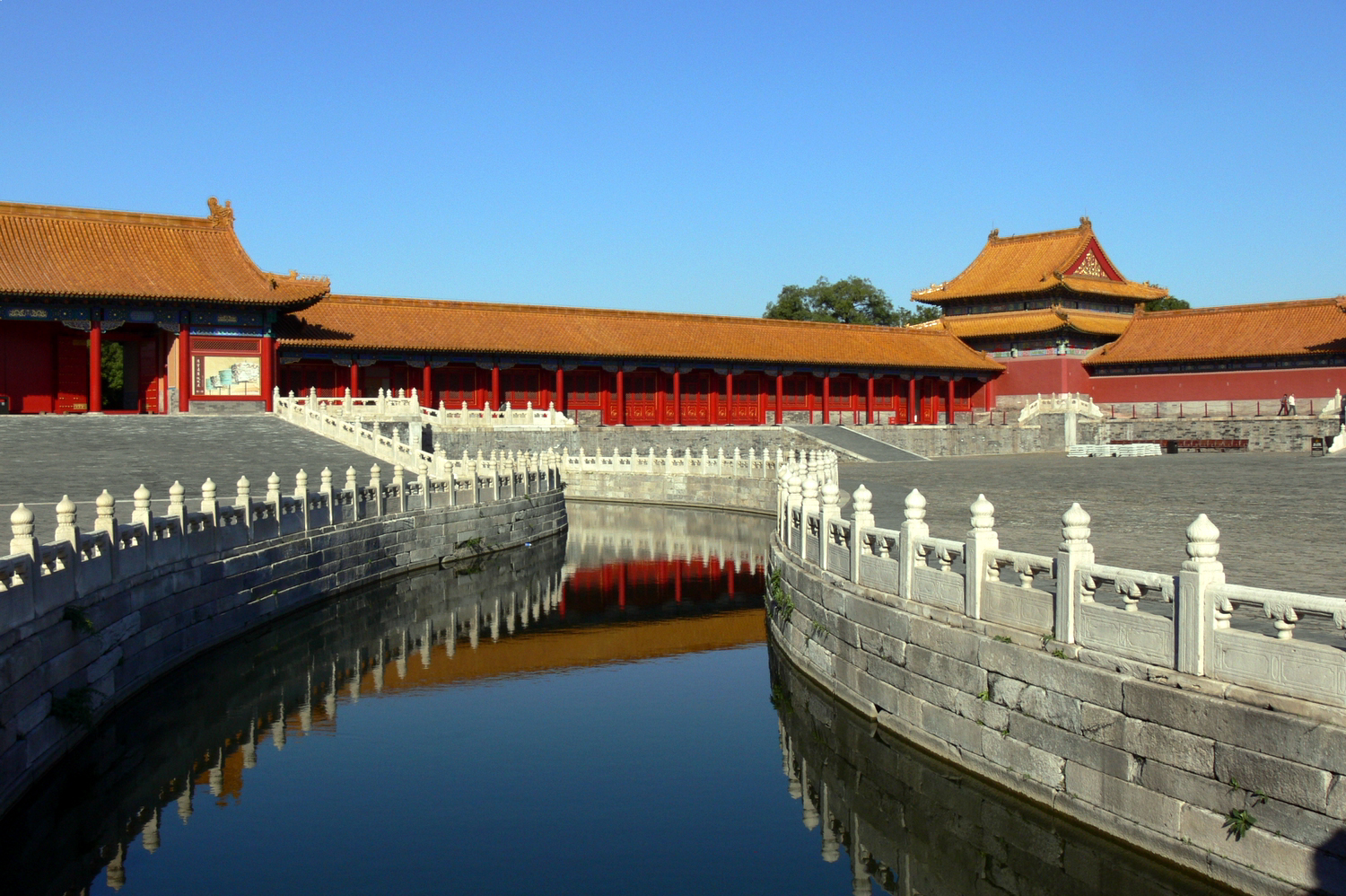 Gold Water River in the Forbidden City